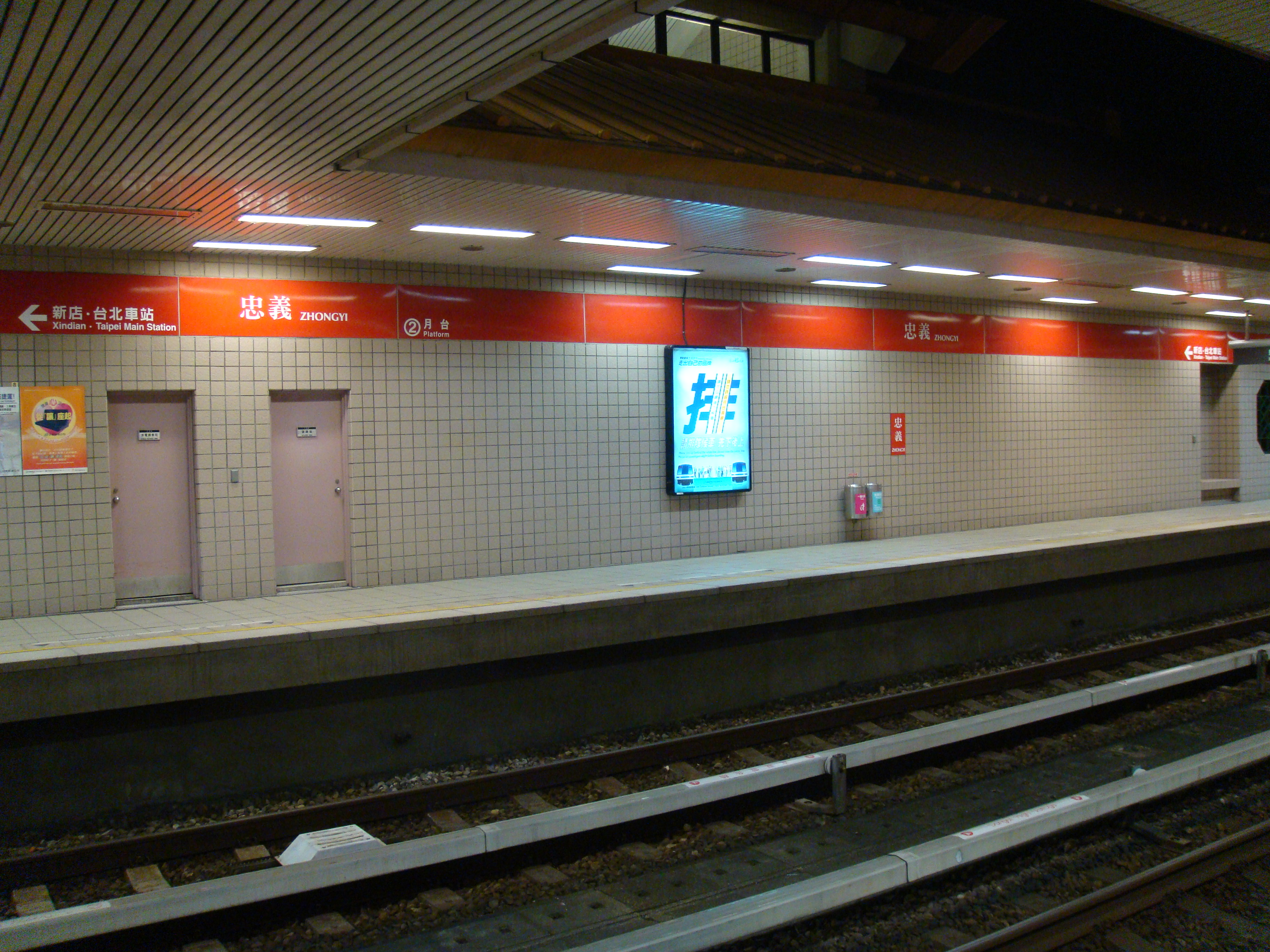 Zhongyi Station, Danshui Line, Taipei Metro, Taiwan.